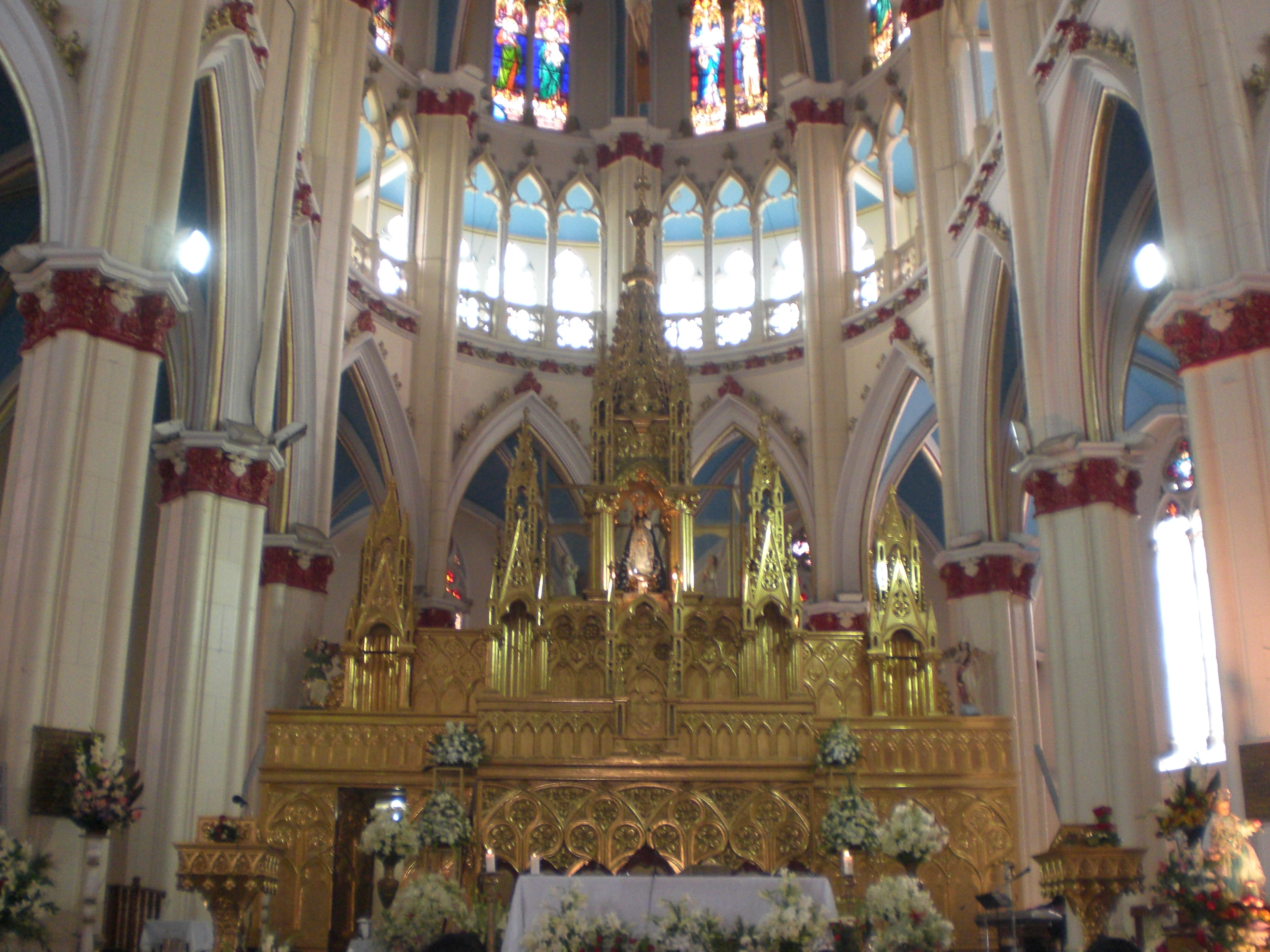 Icon of the Virgin of El Cisne in the altar of the Basilica Del Cisne, in El Cisne, Ecuador.